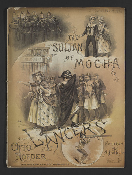 Sheet music and cover for The Sultan Of Mocha as written and composed by Otto Roeder. Published in London by Enoch & Sons on April 17, 1876.